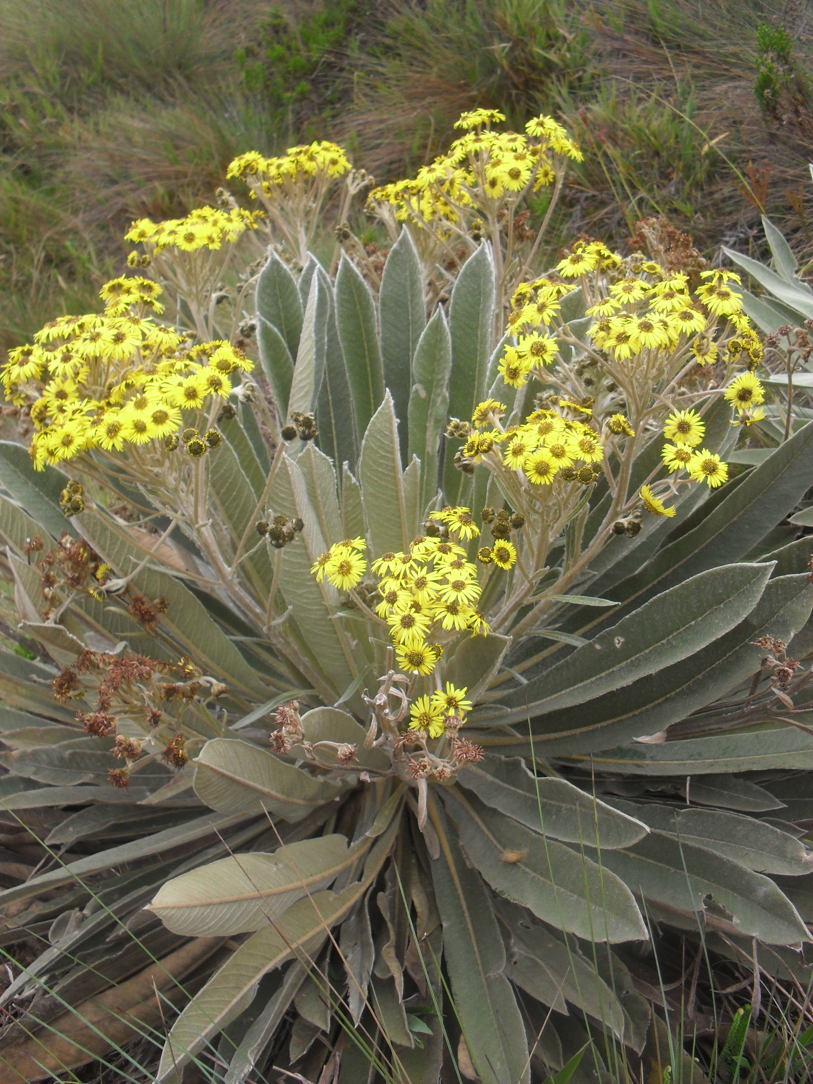 Frailejon Espeletia sp.